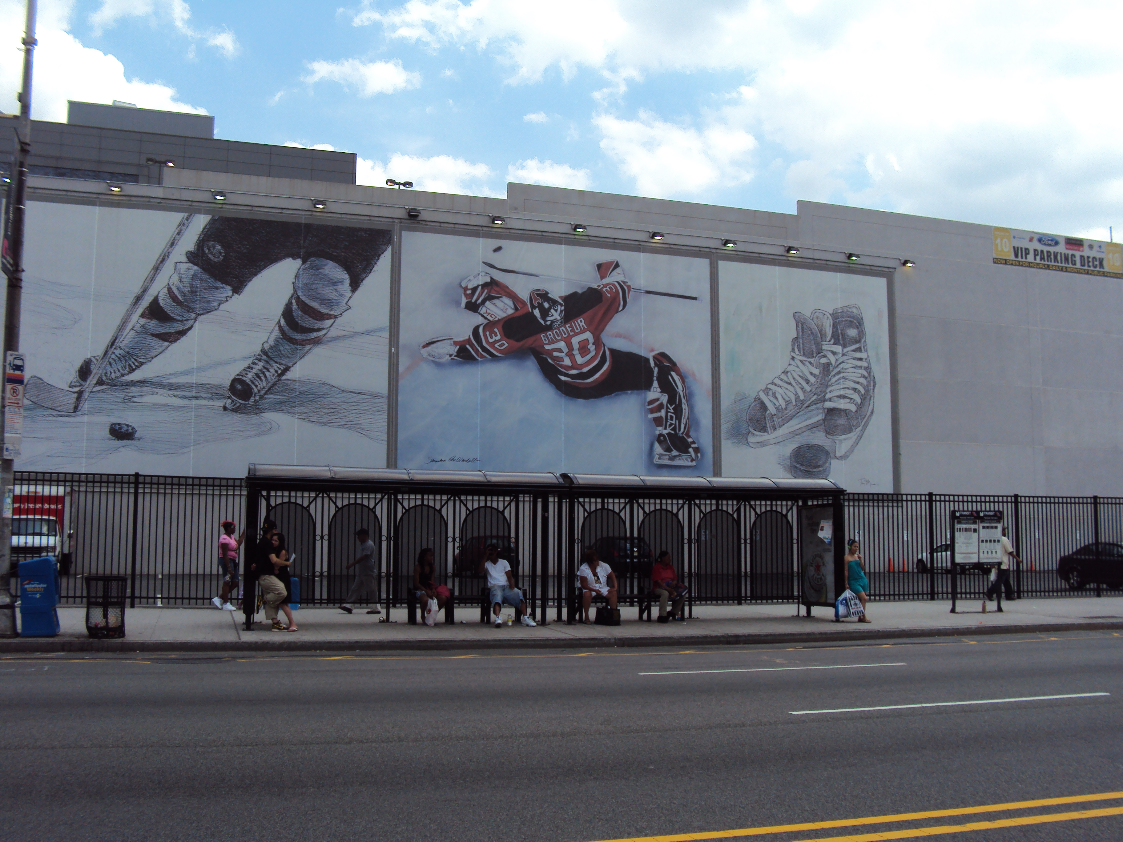 Double-Length Bus Stop @ Prudential Center - Newark, NJ